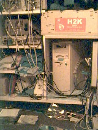 TESO research lab hidden within the wardrobe in a student's accommodation in Karlsruhe. Various different architectures to develop and test exploits (hp/ux, solaris, aix, OpenBSD, FreeBSD, NetBSD, Linux).